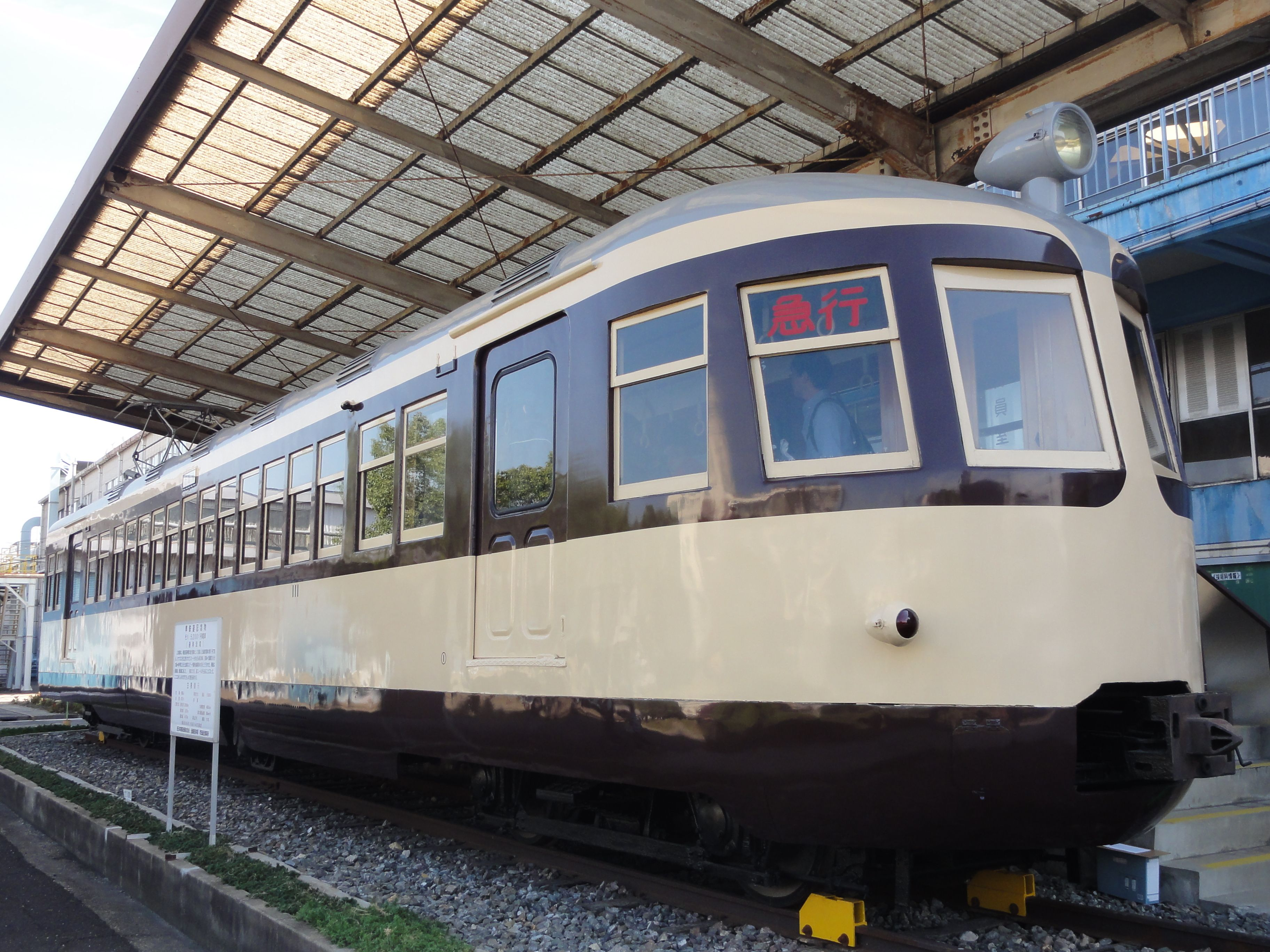 Japanese National Railways Kumoha 52001 EMU preserved at the Suita Car Maintenance Center